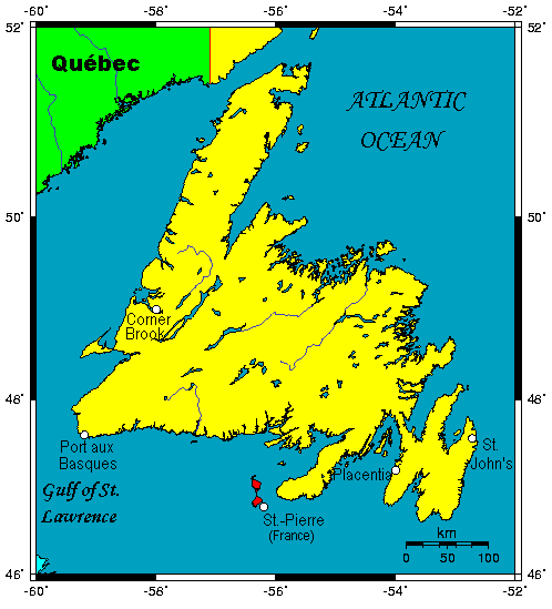 A map showing the Island of Newfoundland in the Canadian province of Newfoundland and Labrador.